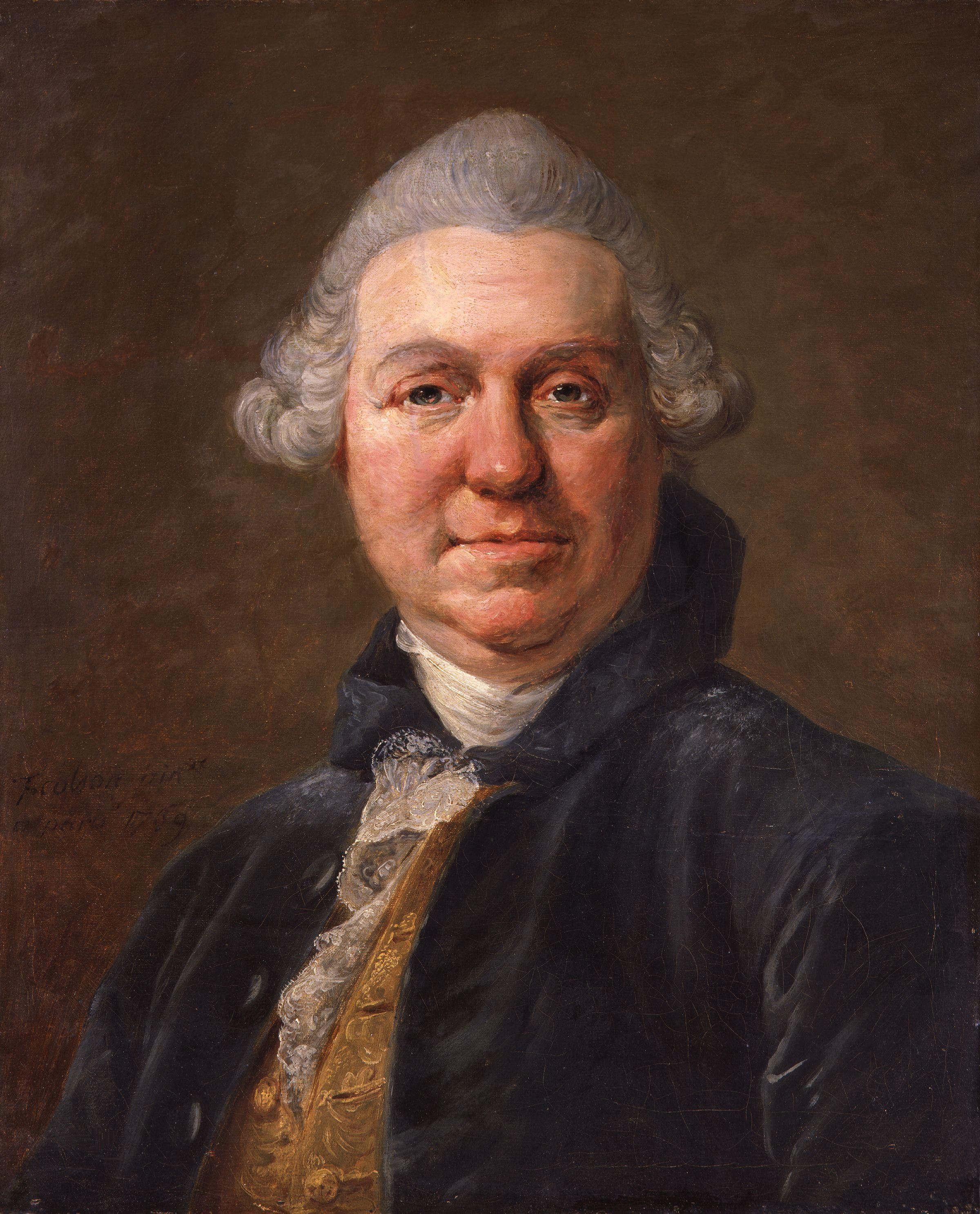 Portrait of Samuel Foote (1720-1777), British writer and actor